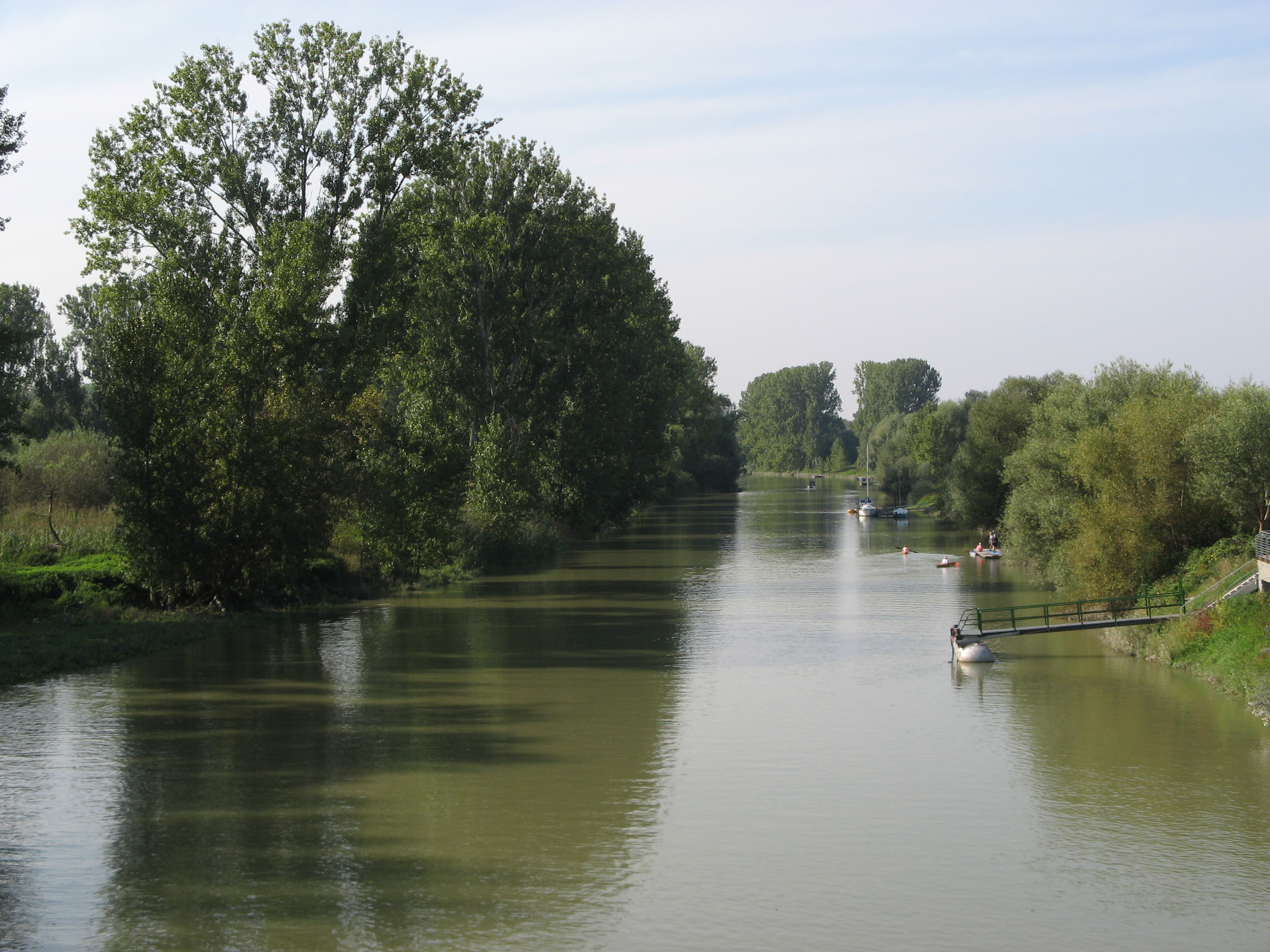 One of the bayous of the Rhine near Stockstadt, Germany, at the nature reserve Kuehkopf-Knoblochsaue